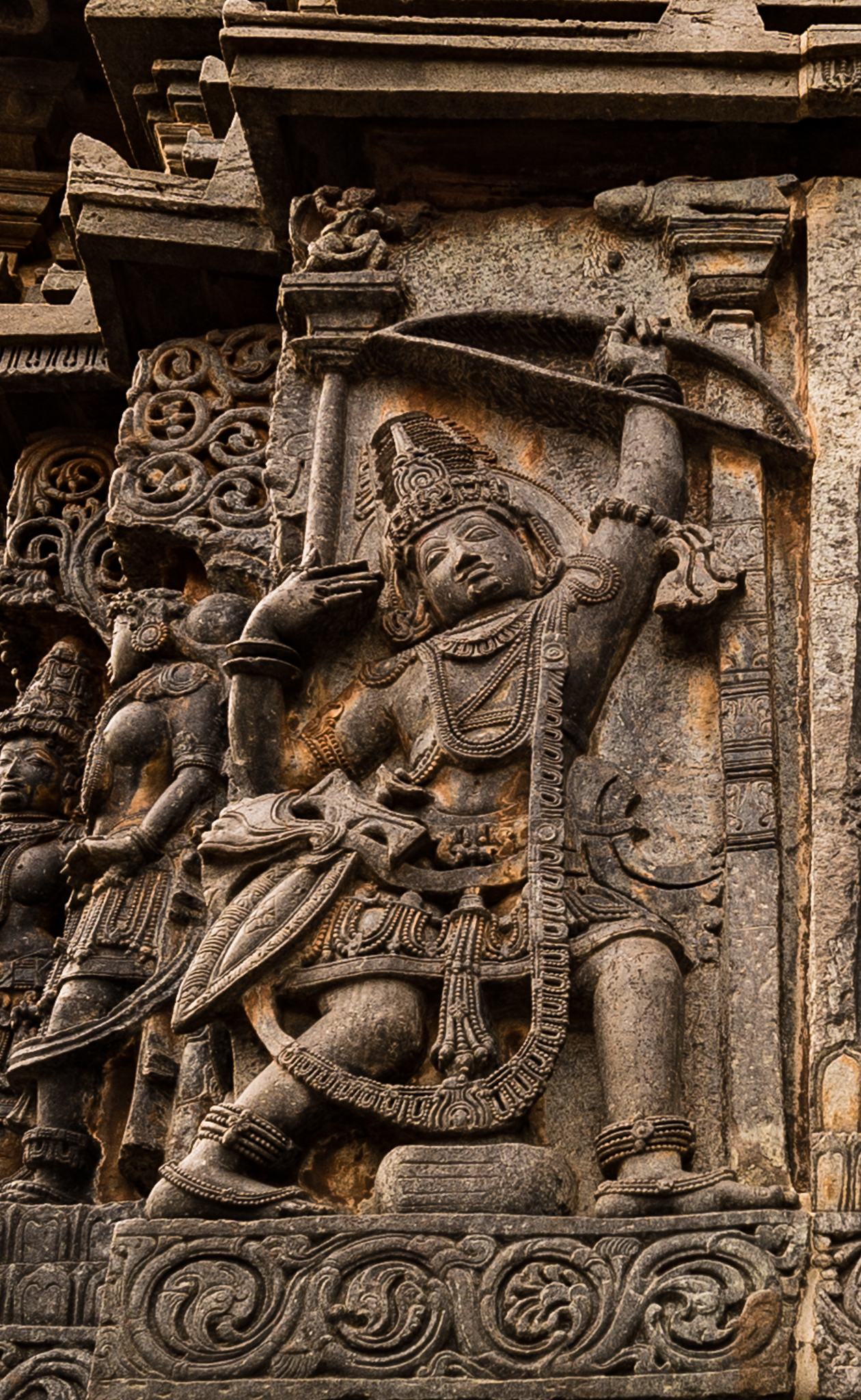 Hoysala Architectures